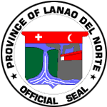 Provincial seal of Lanao del Norte, Philippines.